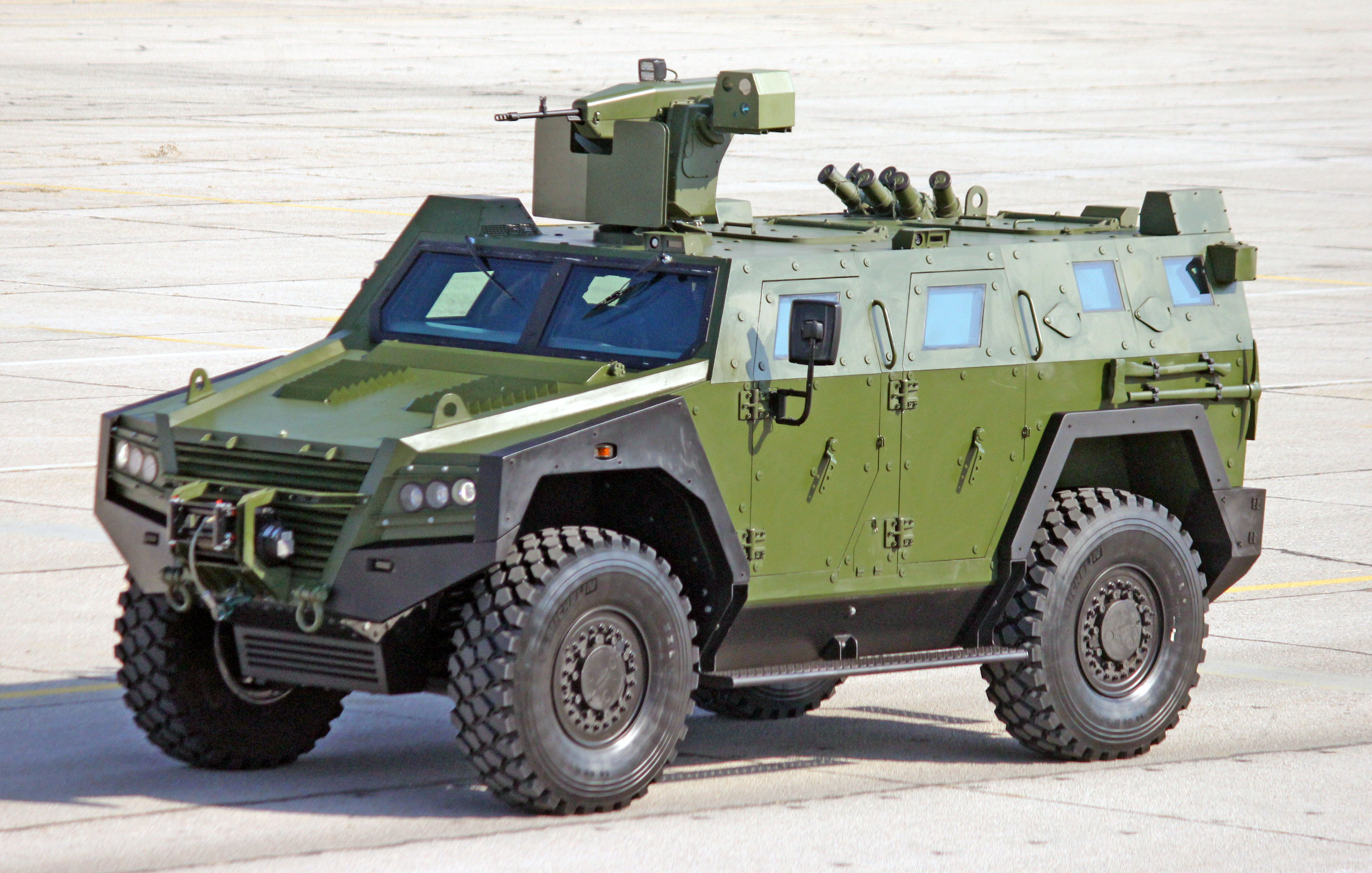 Serbian army new BOV M-16 Miloš armored combat vehilce on Sloboda 2019 military parade and exercise at "Colonel-pilot Milenko Pavlović" military airport.